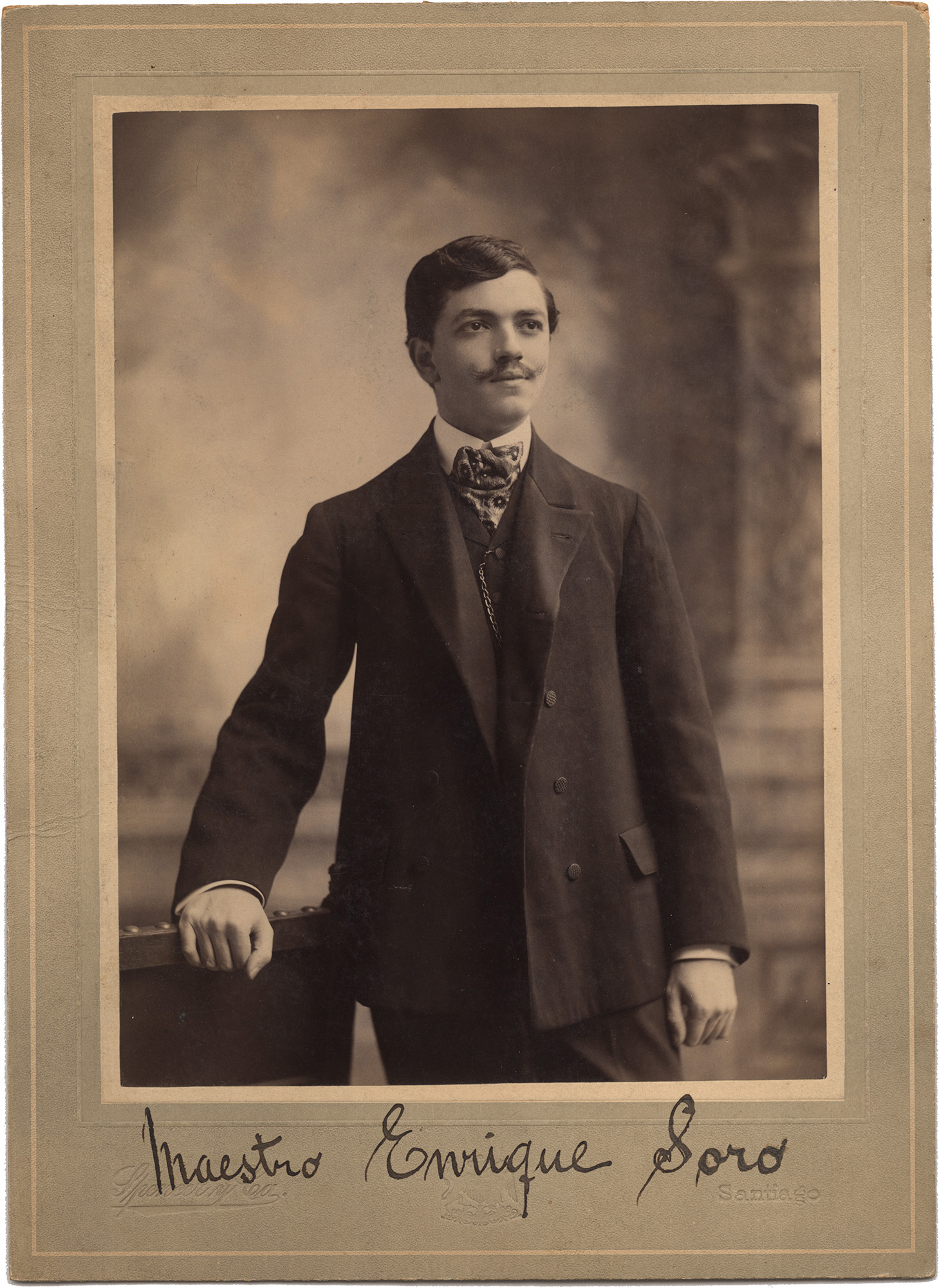 Portrait of Enrique Soro Barriga, composer (1884-1954). Photo by unknown, before 1954.